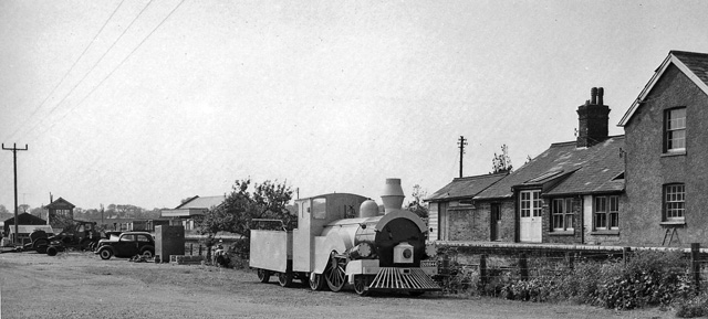 Burnham Market Station (closed). View westward, towards Heacham; ex-Great Eastern, Heacham - Wells-on-Sea branch. The station was closed to passengers when the branch service ceased on 2/6/52, but goods continued until 28/12/64 although Burnham - Market - Wells was closed after being breached by the sea in the floods of 31/1-1/2/53. [The 'engine' in the yard is 'fun' road vehicle - I know nothing about it!]